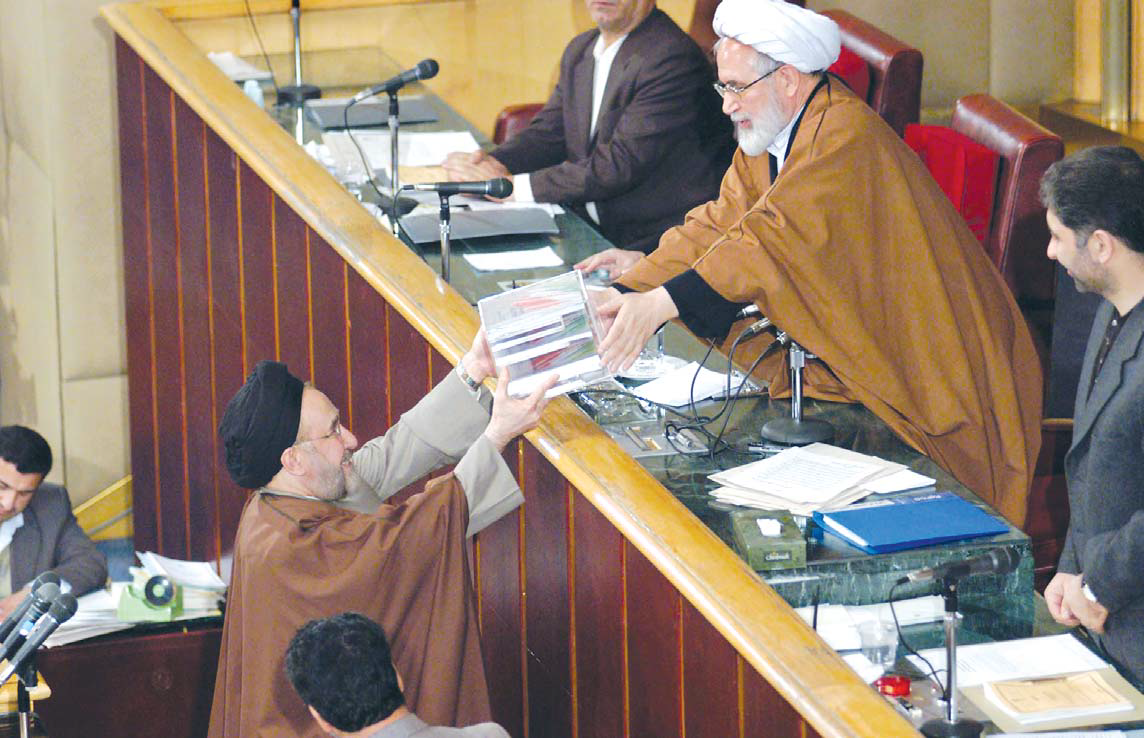 Mohammad Khatami submitting budget bill to the parliament - December 23, 2003